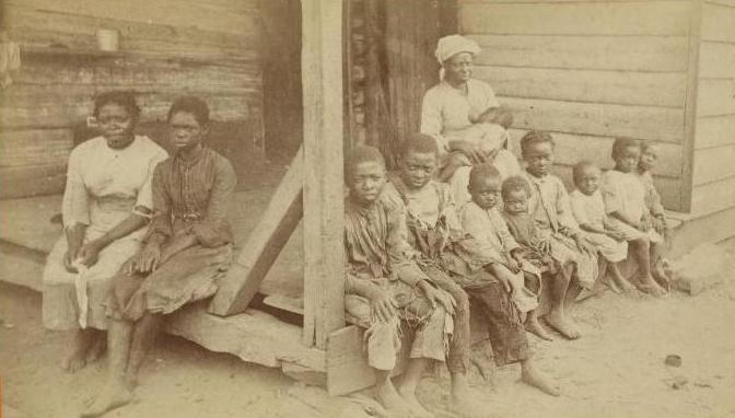 half of a stereograph produced in 1874.Rectangular shaped object with rounded edges. It is oriented horizontally or more technically in a landscape orientation. Its width is 6.5 cm and its height is 3.75 cm.